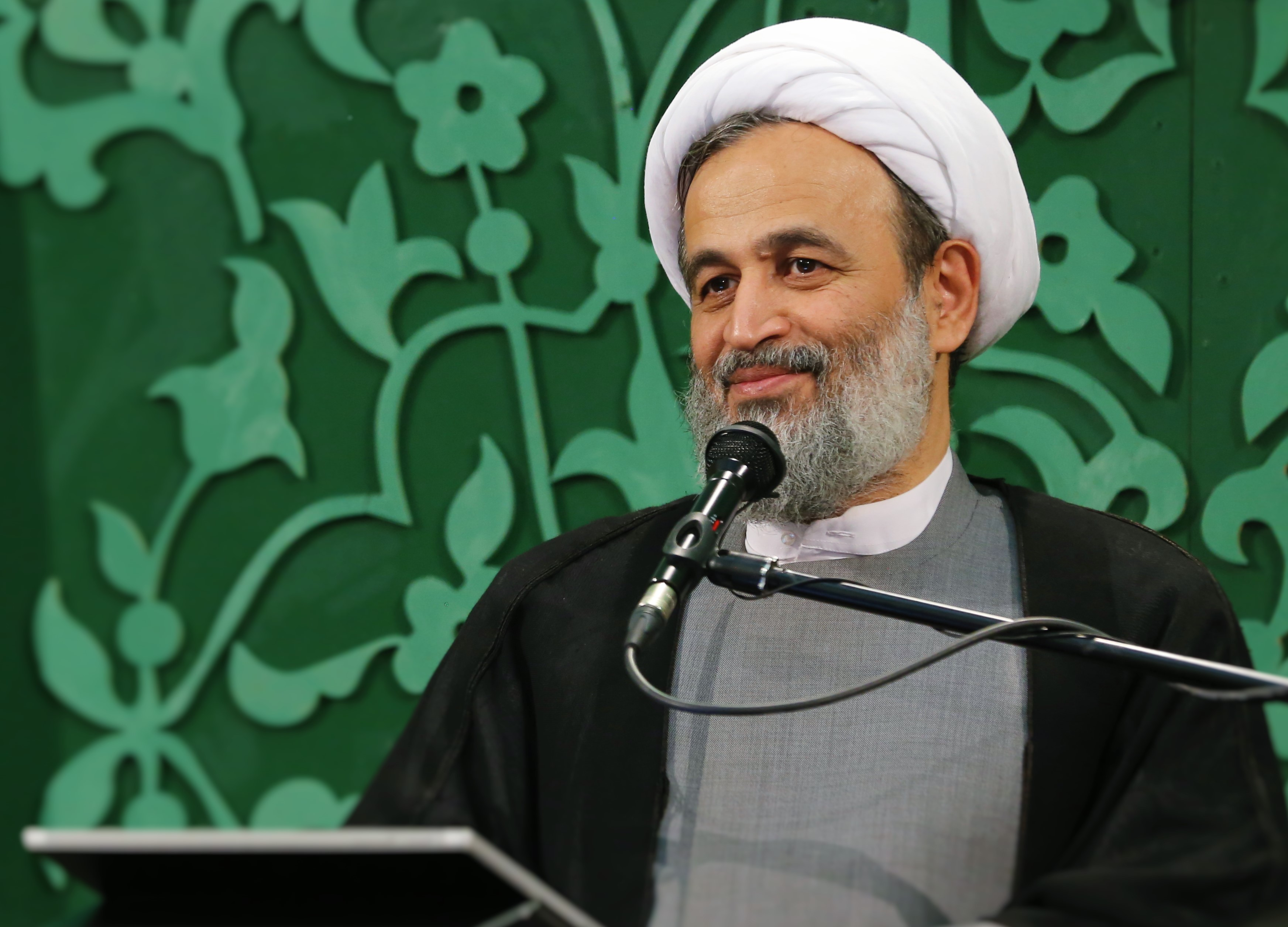 Alireza Panahian